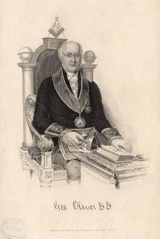 Portrait of George Oliver (1782–1867), English and writer on freemasonry.